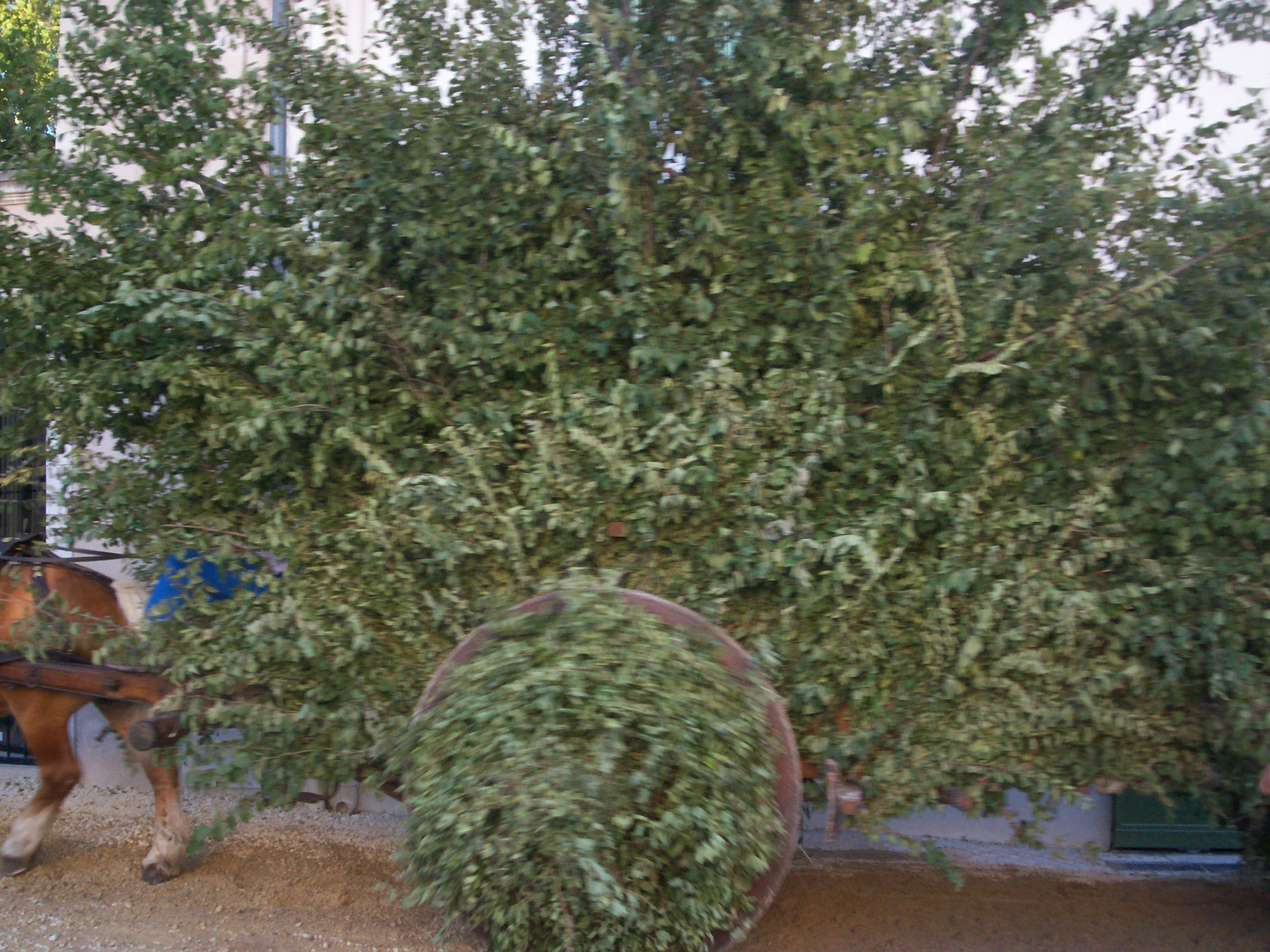 Carreto ramado, vehicule constructed for the Fête Saint-Éloi